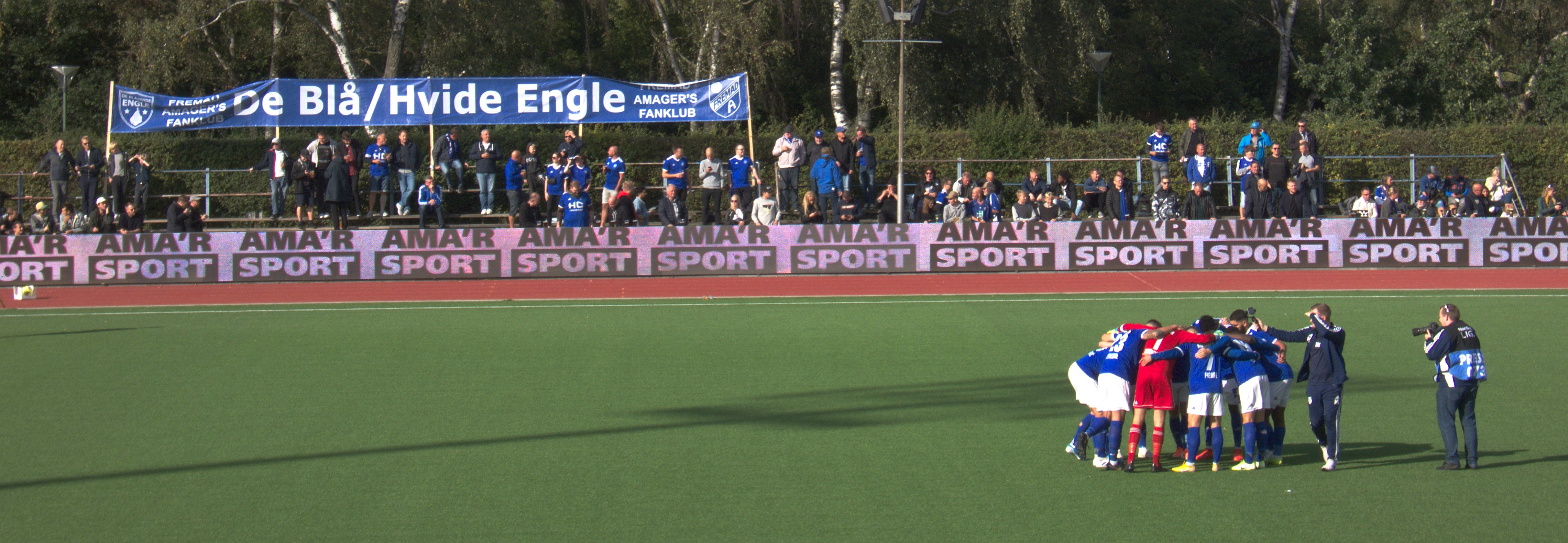 Players of BK Fremad Amager gathering moments before a match against Viborg FF in the Danish 1st division.